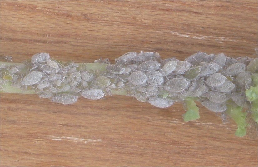 curley kale Brevicoryne brassicae on Brassica oleracea